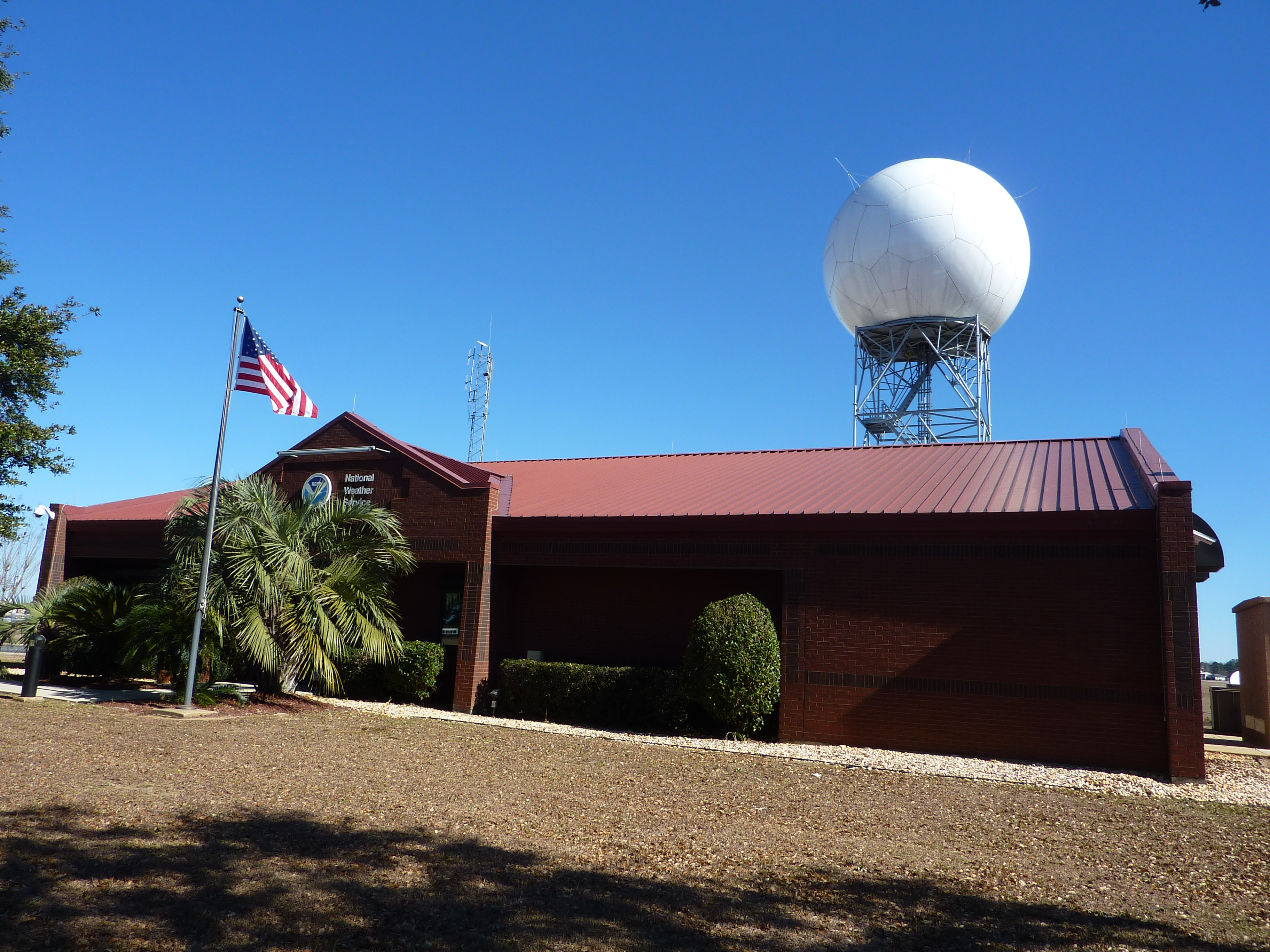 NWS Forcecast office and NEXRAD at the Mobile Regional Airport, LA